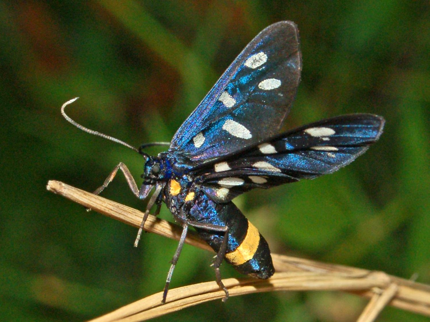 Female of Amata phegea, ventral view. Genova, Italy